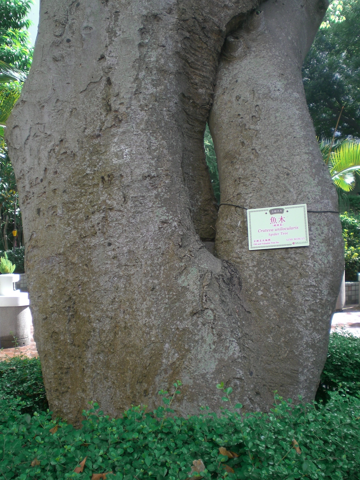 灣仔公園